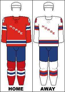 The home and away jerseys of the Norwegian national ice hockey team used at the 2014 Winter Olympics.